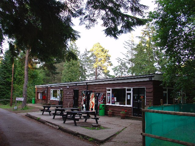 Admin office and Camp Shop, Broadstone Warren Scout Campsite, Nr Forest Row, West Sussex. Near the entrance to this popular scout campsite is the camp office and shop. Broadstone Warren Campsite dominates the grid squares TQ4232 and TQ4233 and spreads into the adjacent squares to the E too. The area is almost entirely covered by mixed mature woodland.